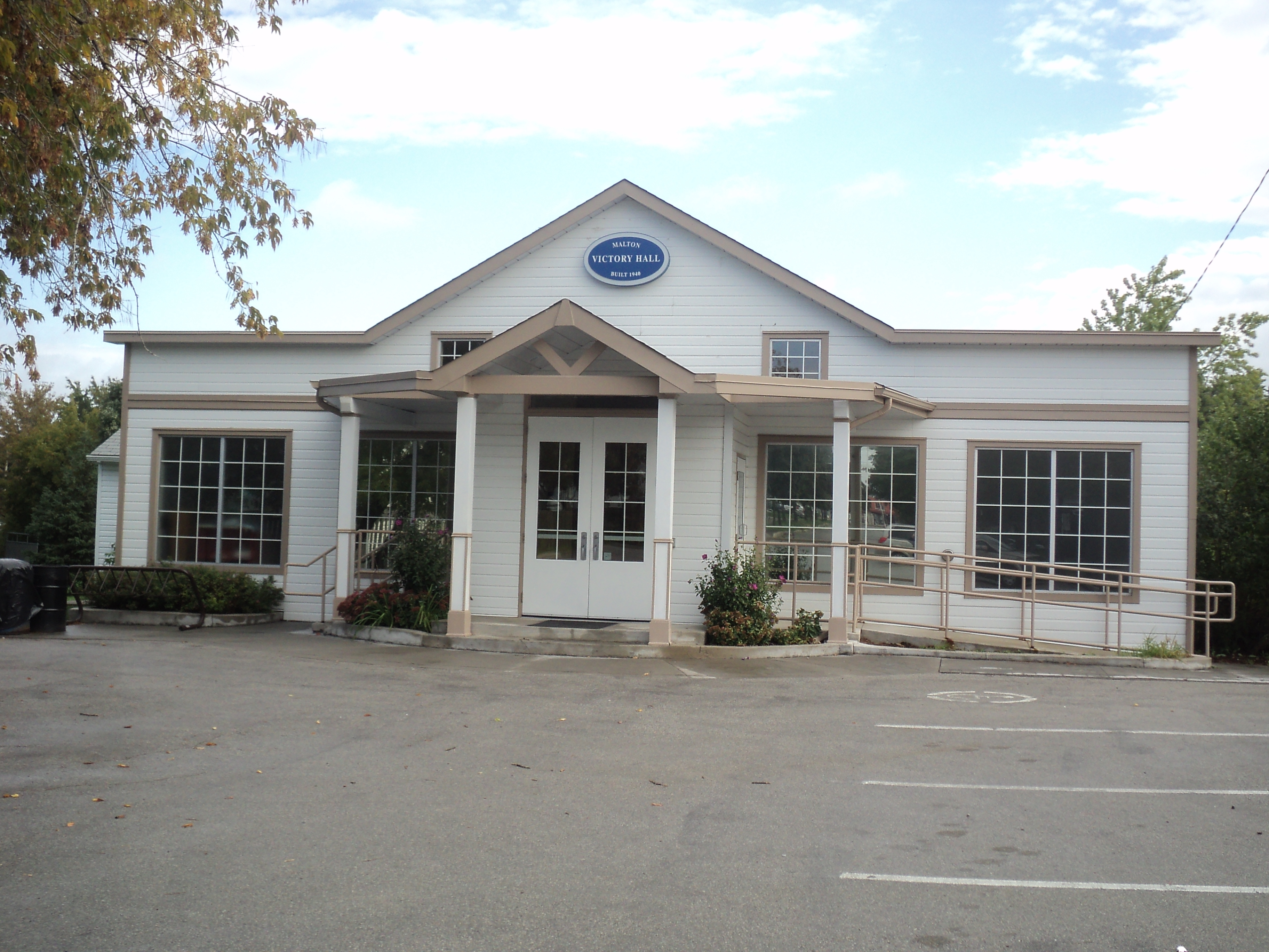 Victory Hall Malton, after 2010 renovation